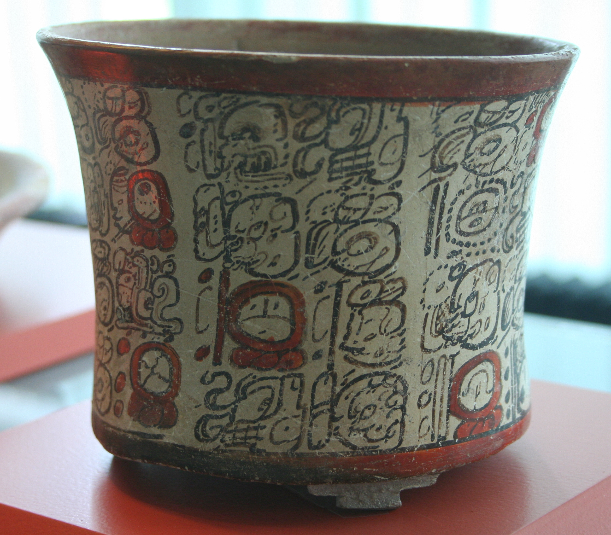 Ethnological Museum Berlin